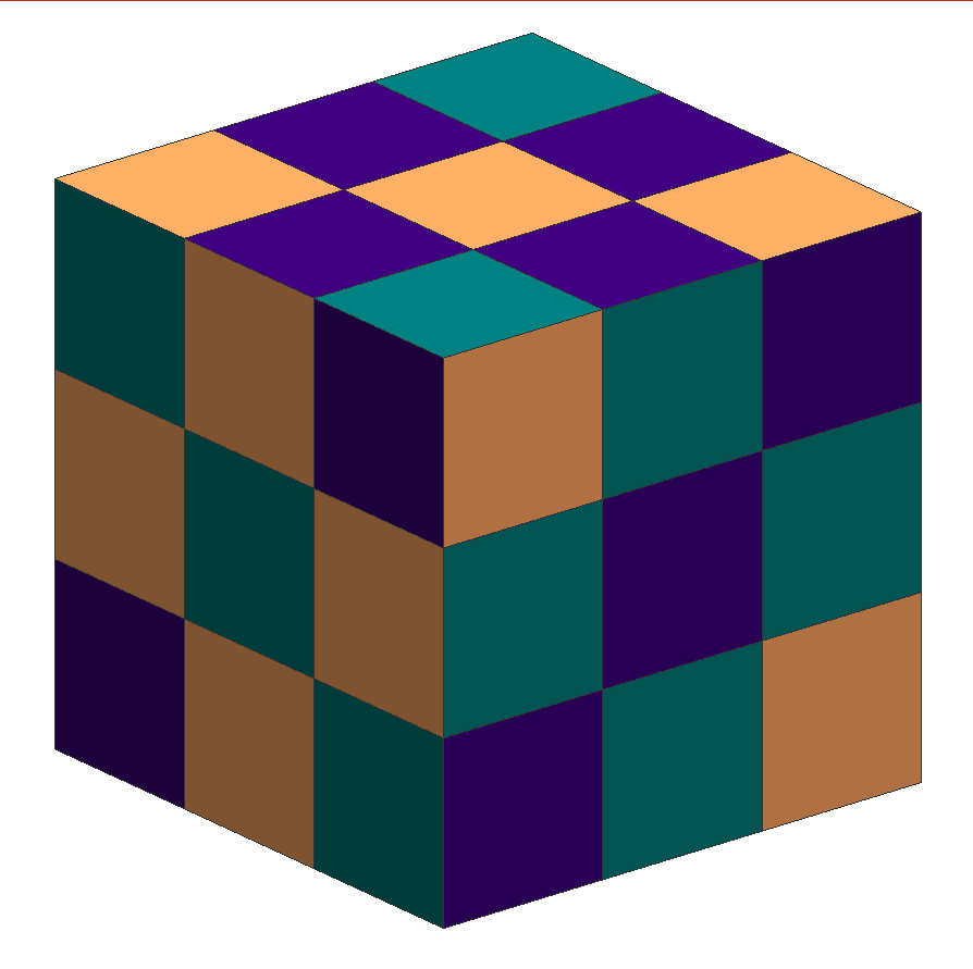 A 3D model of Rubiks's cube coloured with 3 colours.